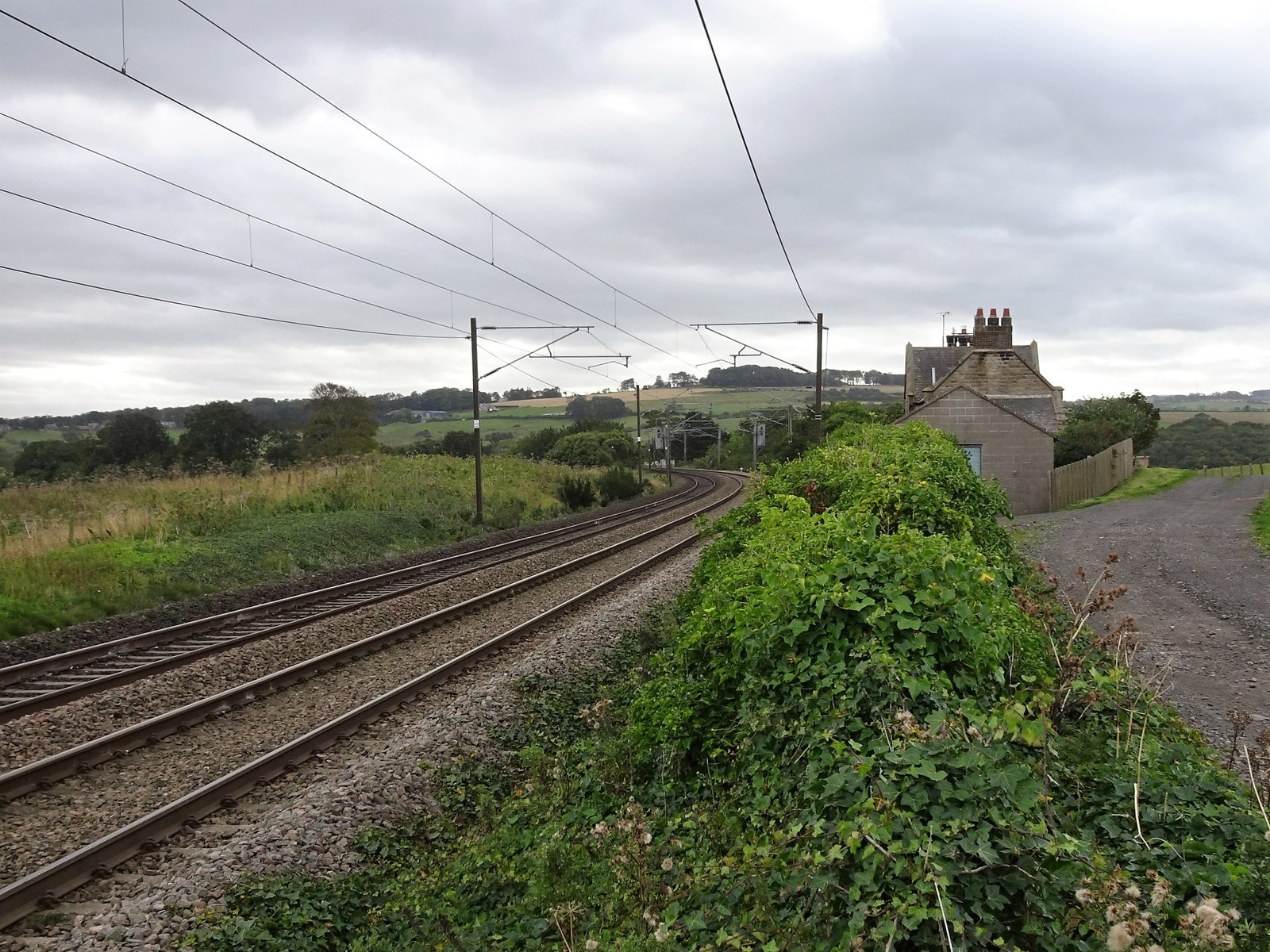 Lesbury railway station (site), NorthumberlandOpened in 1847 by the Newcastle & Berwick Railway, later part of the North Eastern Railway, this was the closest station to the principal town of Alnwick on the opening of the railway, and a horse drawn omnibus was provided for connections. It was however made redundant by a branch line from Alnmouth to Alnwick which opened in 1850, at which point this station closed. View south towards Alnmouth and Newcastle. No trace of the platforms remain but the former station building was still extant as a private residence when this image was taken.